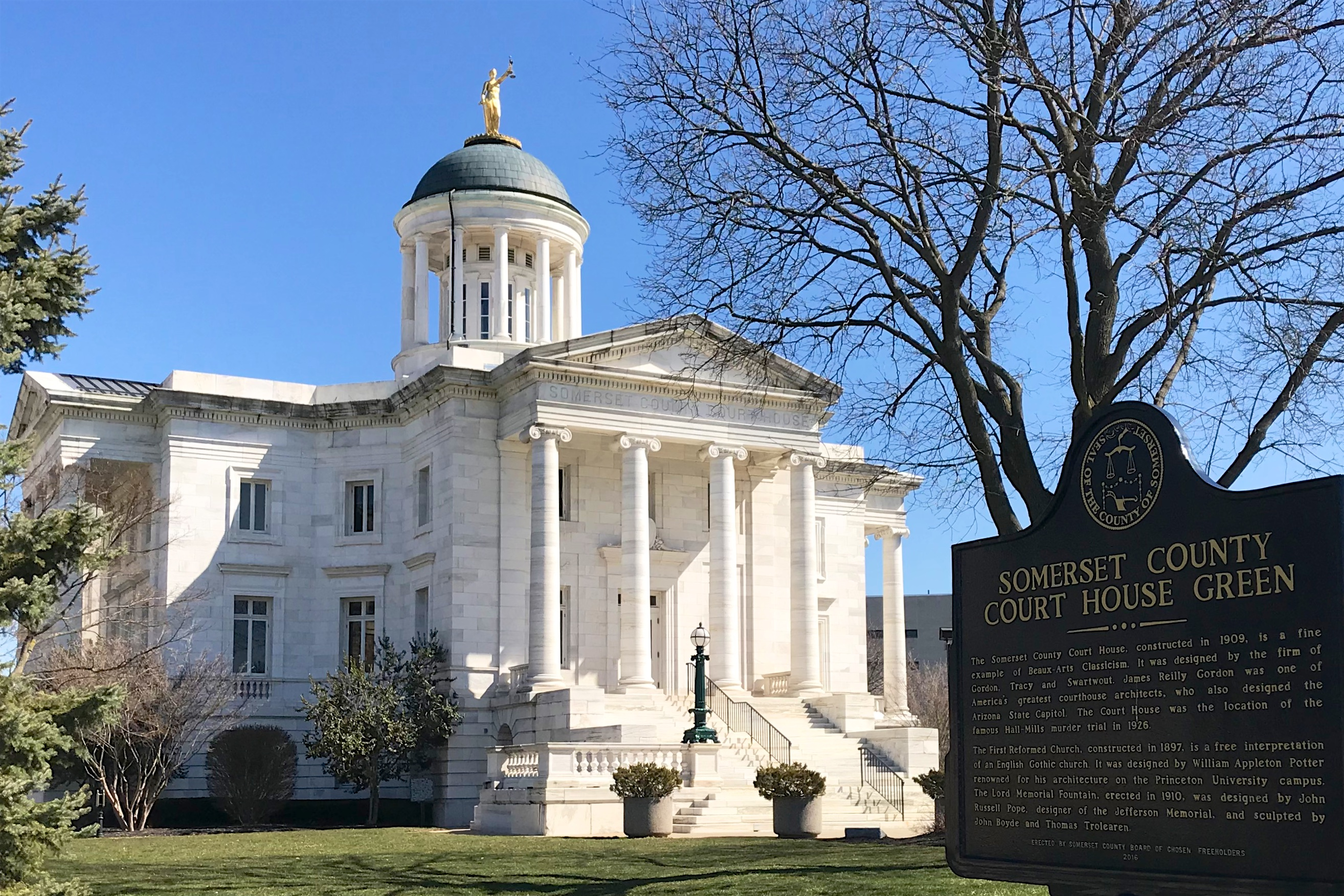 The historic Somerset County Courthouse in the Somerset Courthouse Green in Somerville, New Jersey.